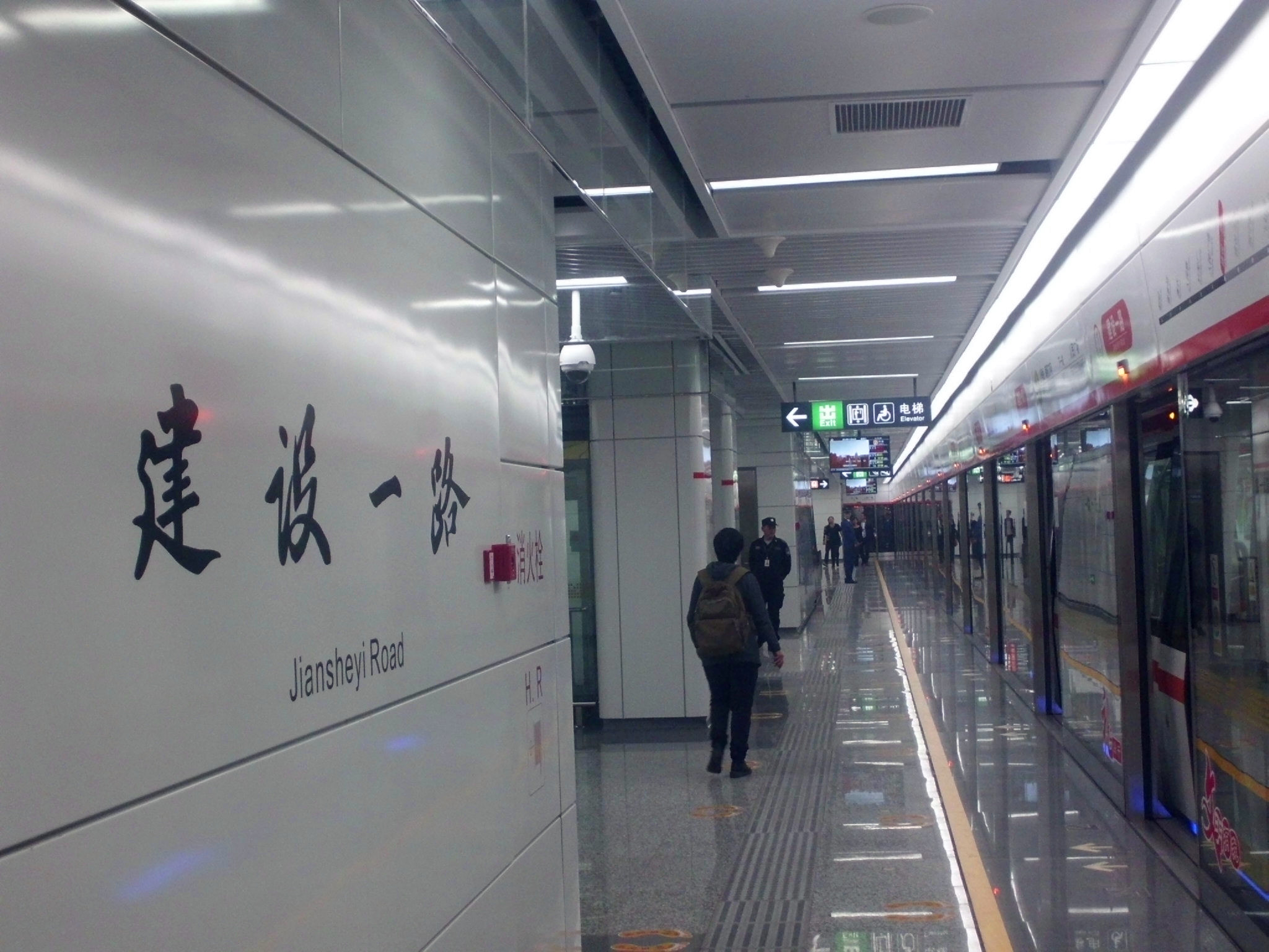 Jiansheyi Road Station